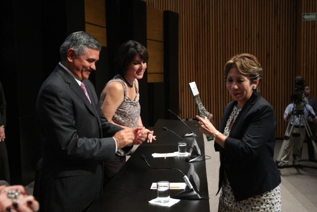 Song recibiendo reconocimiento